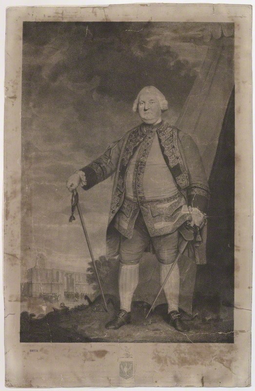 Major-General Stringer Lawrence (1697-1775), the first Commander-in-Chief, India. Engraving of portrait by Sir Joshua Reynolds (1723-1792), location of original unknown, published 1 January 1795 by Ezekiel Abraham Ezekiel. The armorial at the bottom is that of Lawrence's friend Sir Robert Palk, 1st Baronet: Sable, an eagle displayed argent beaked and legged or a bordure engrailed of the second. 22 7/8 in. x 14 3/4 in. (580 mm x 375 mm) paper size. National Portrait Gallery, London, NPG D37212. Given by W.M. Campbell Smyth, 1935